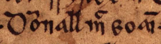 The name of Dyfnwal ap Owain, King of the Cumbrians (died 975) as it appears on folio 15r of Oxford Bodleian Library MS Rawlinson B 488 (the Annals of Tigernach): "Domnall mac Eoain".